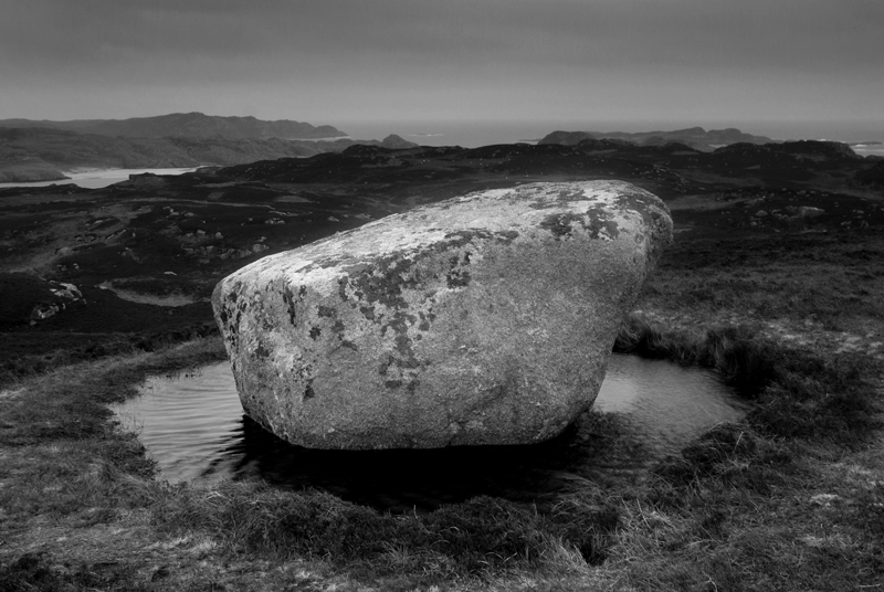 Wishing Stone, Erraid, Scotland